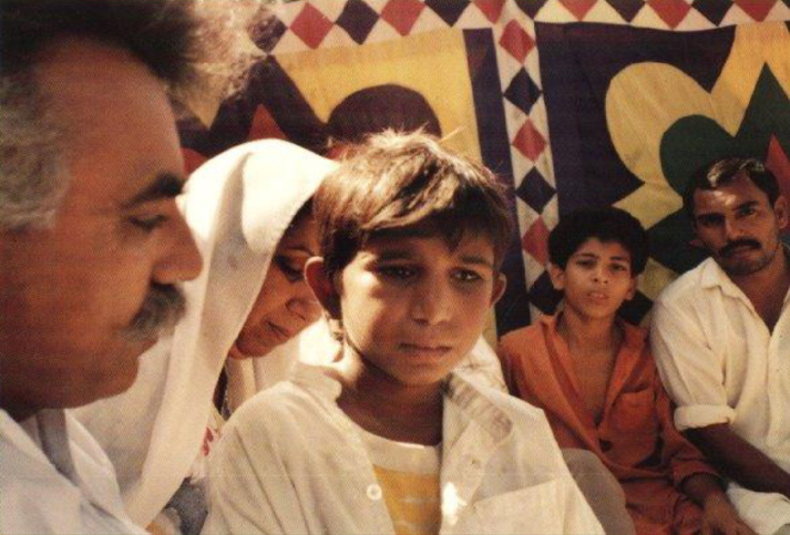 When Ehsan met Iqbal the boy was shy and afraid, but Khan realized he had many thing to tell. Removed text: The first meeting with the carpet slave child Iqbal Masih at Shekhupura September 1992